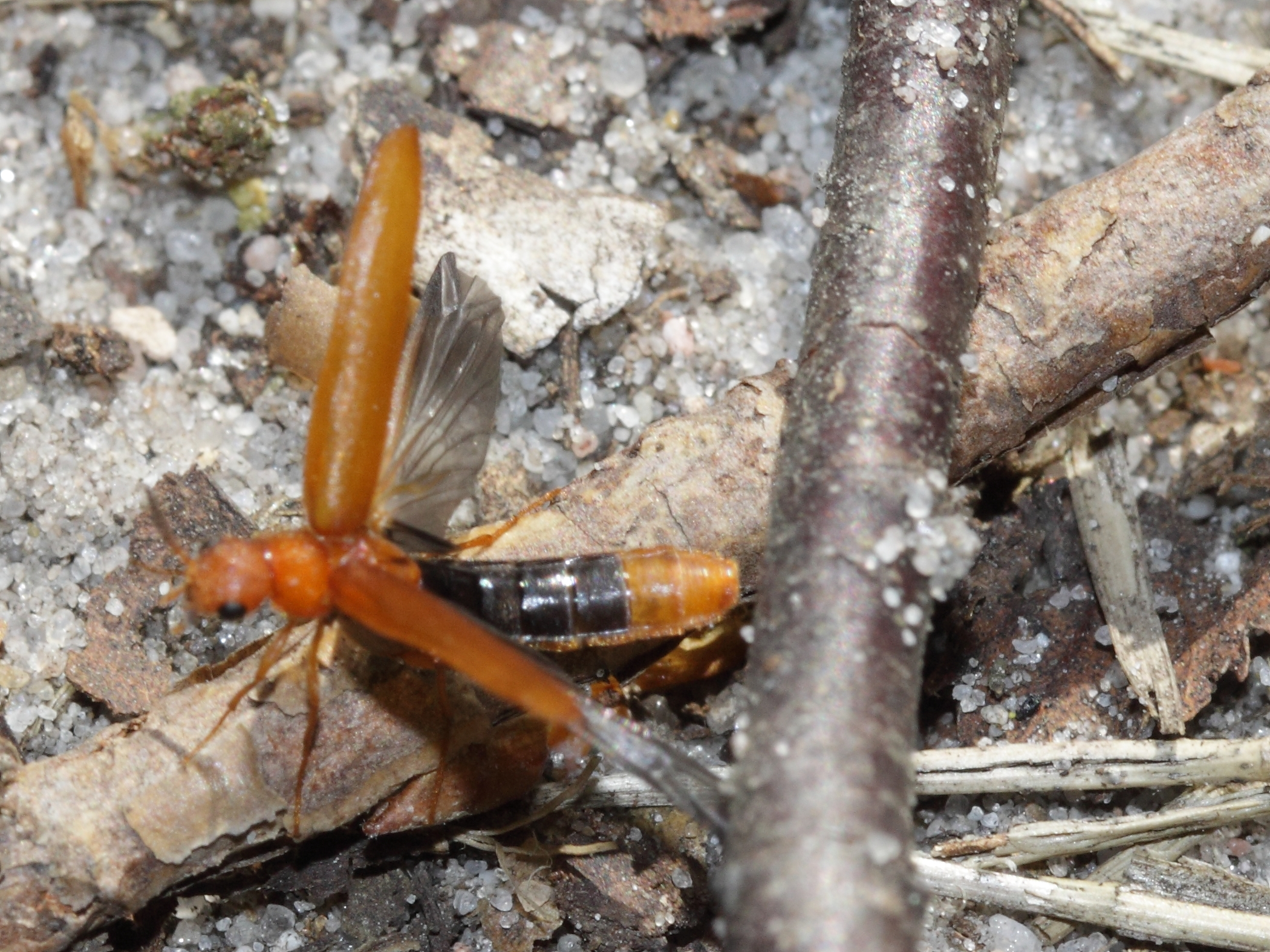 Phylum: Arthropoda Subphylum: Hexapoda Blainville, 1816 class Insecta - Insects subclass Pterygota infraclass Neoptera Martynov, 1923 Order: Coleoptera Linnaeus, 1758 (beetles, Käfer) suborder Polyphaga Emery, 1886 infraorder Cucujiformia Latreille, 1802 superfamily Lymexyloidea Fleming, 1821 - ship-timber beetles Family: Lymexylidae Fleming, 1821 (ship-timber beetles, Werftkäfer) Subfamily: Hylecoetinae Germar, 1818 Genus: Hylecoetus Latreille, 1806 Hylecoetus dermestoides LINNAEUS, 1761 (Buchenwerftkäfer oder Sägehörniger Werftkäfer), ♀ more info (German): Germany, Brandenburg, vic. Königs-Wusterhausen: Dubrow, 05.05.2013 IMG_3488